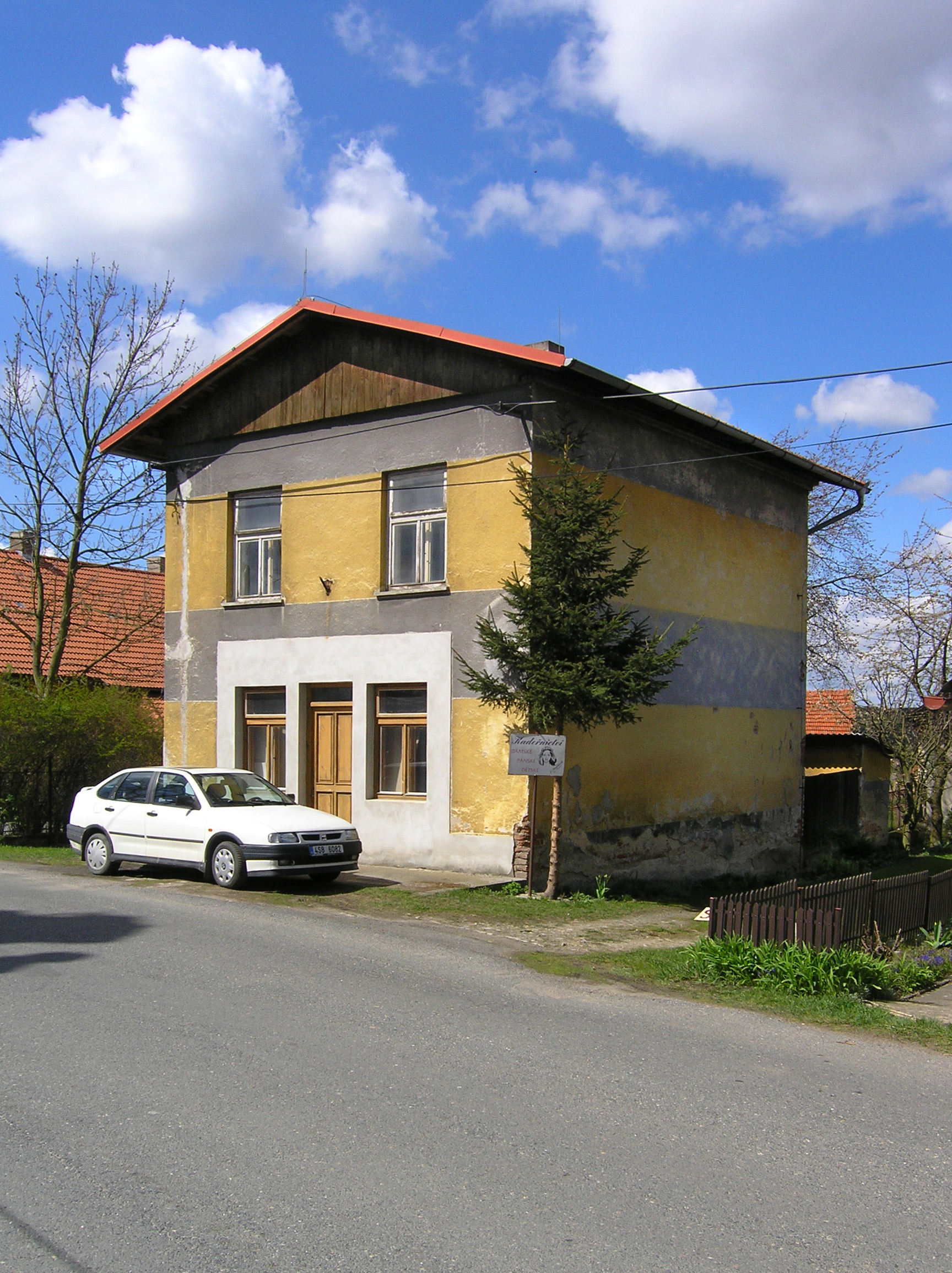 Small house in Horní Kruty, Czech Republic